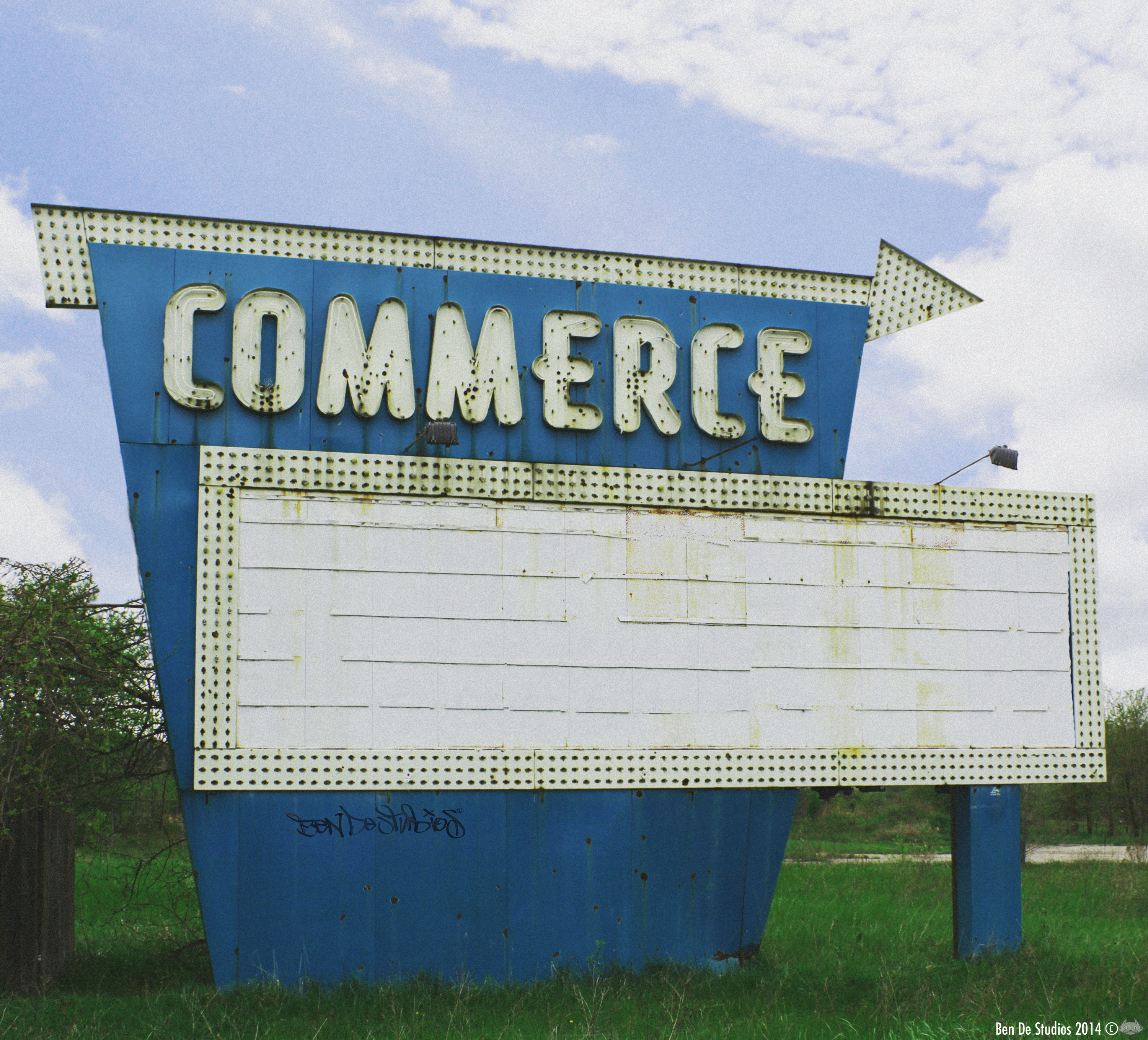 Commerce Township MI Drive In a landmark to locals. Photo by Ben De Studios 2017©